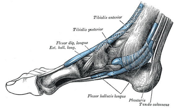 The mucous sheaths of the tendons around the ankle. Medial aspect.